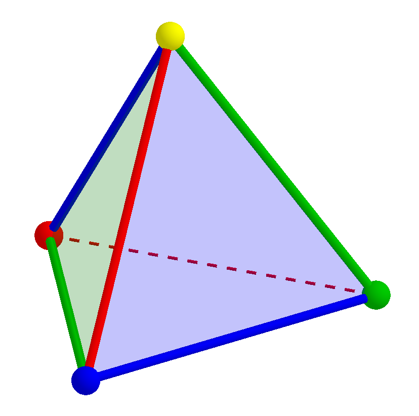 Tetrahedron with coloring of the corners, edges and surfaces